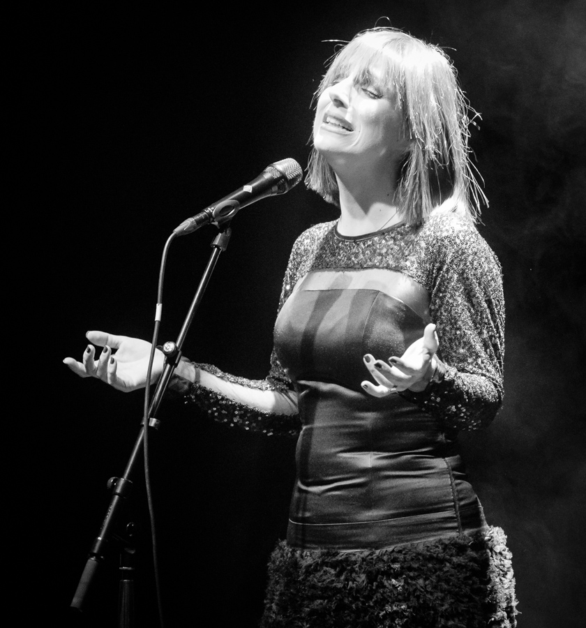 Katia Guerreiro at Cosmopolite. The concert took place on 26. January 2018 in Oslo. Lineup: Katia Guerreiro (vocal), Luís Guerreiro (Portuguese guitar), João Veiga (guitar) and Fernando Júdice (double bass).